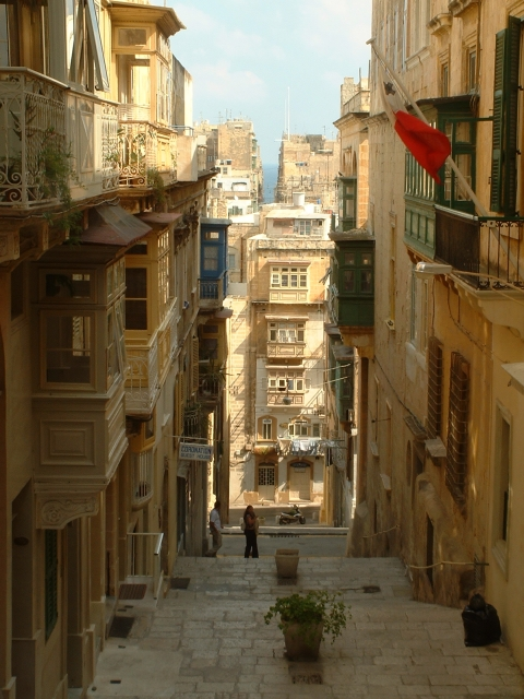 Mikiel Anton Vassalli Street in Valletta